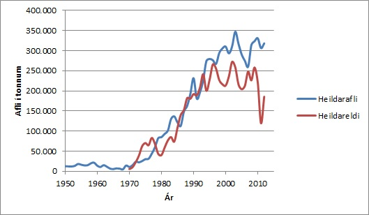 Afli villtra og ræktaðra skelja